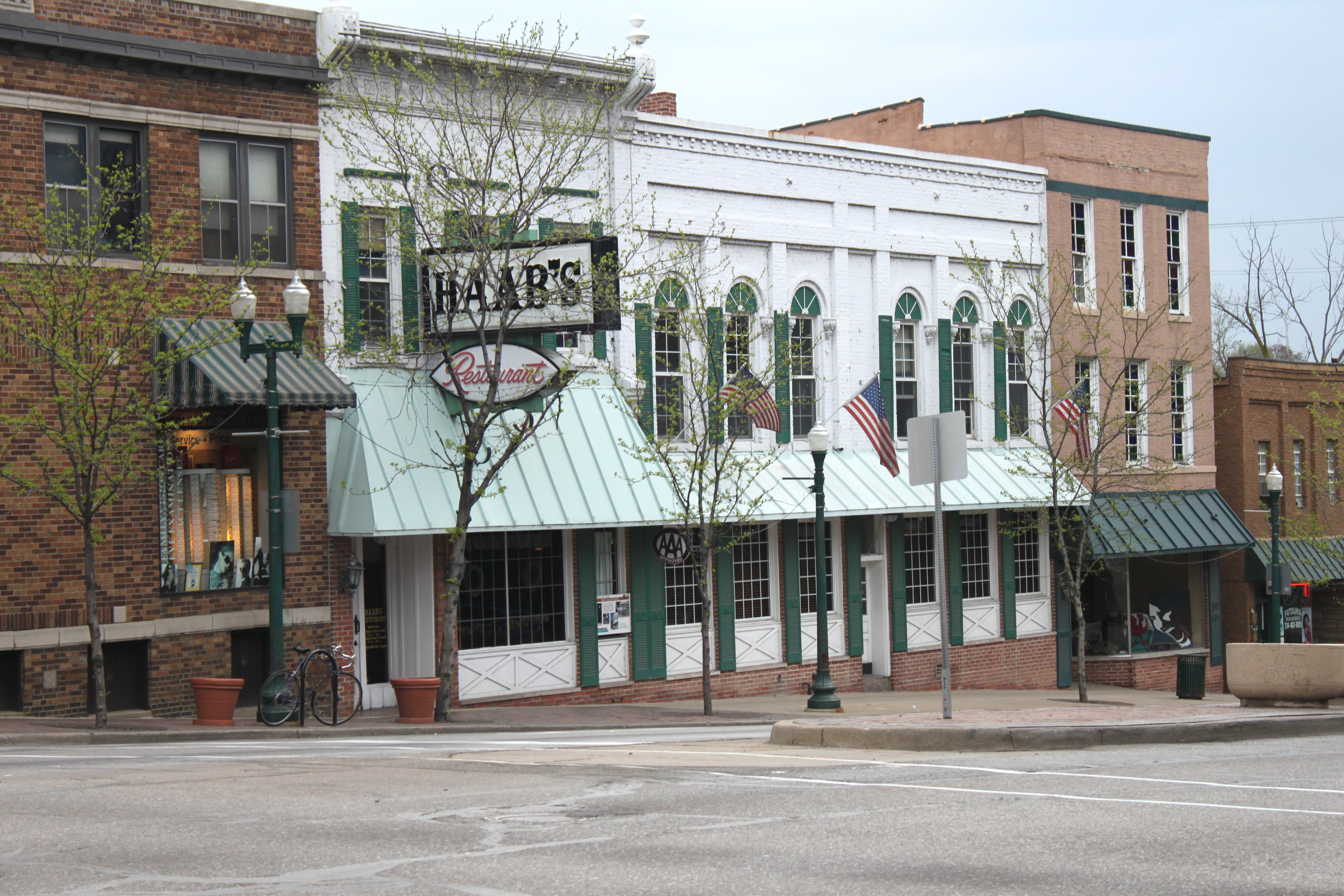 Haab's Restaurant Ypsilanti street view